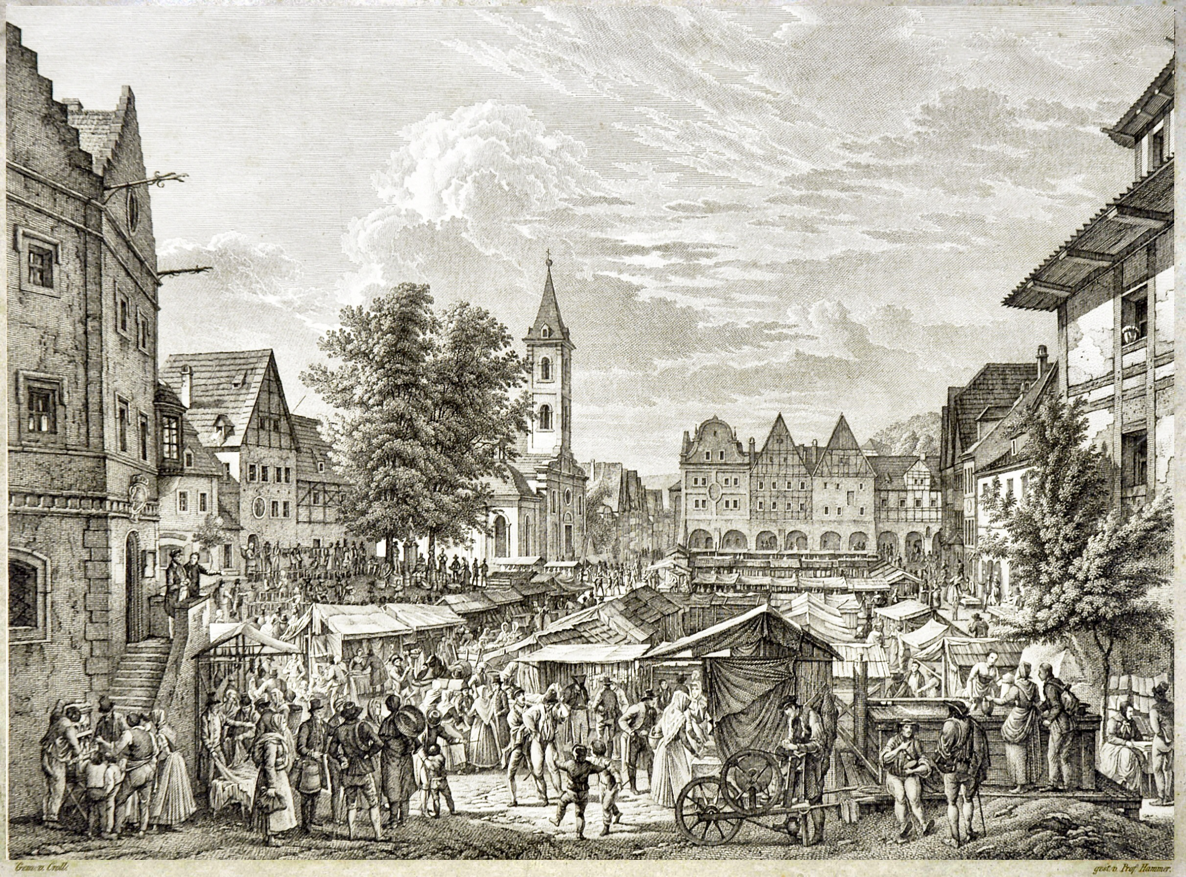 Marketplace in a little bohemian mountain town (etching)